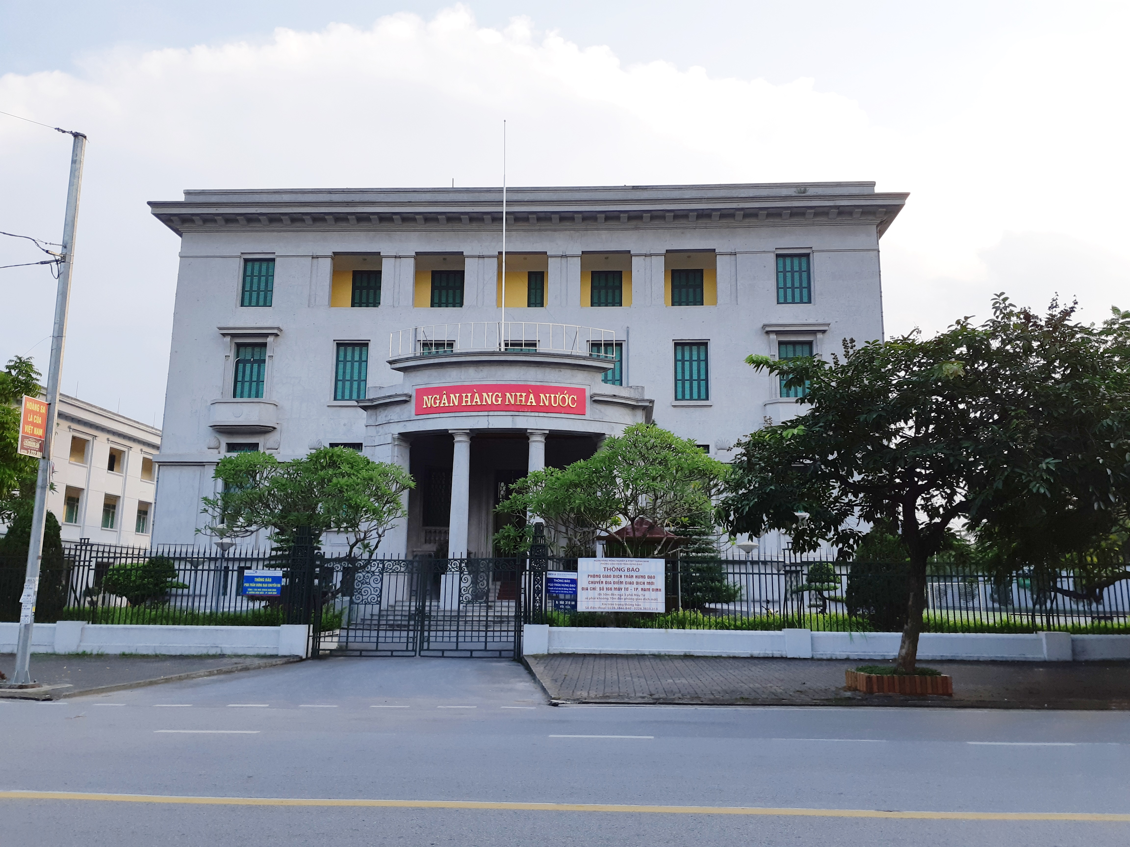 The State Bank of Vietnam branch Nam Dinh.Address: 91 Tran Hung Dao Road, Nam Dinh City, Nam Dinh Province, Vietnam.